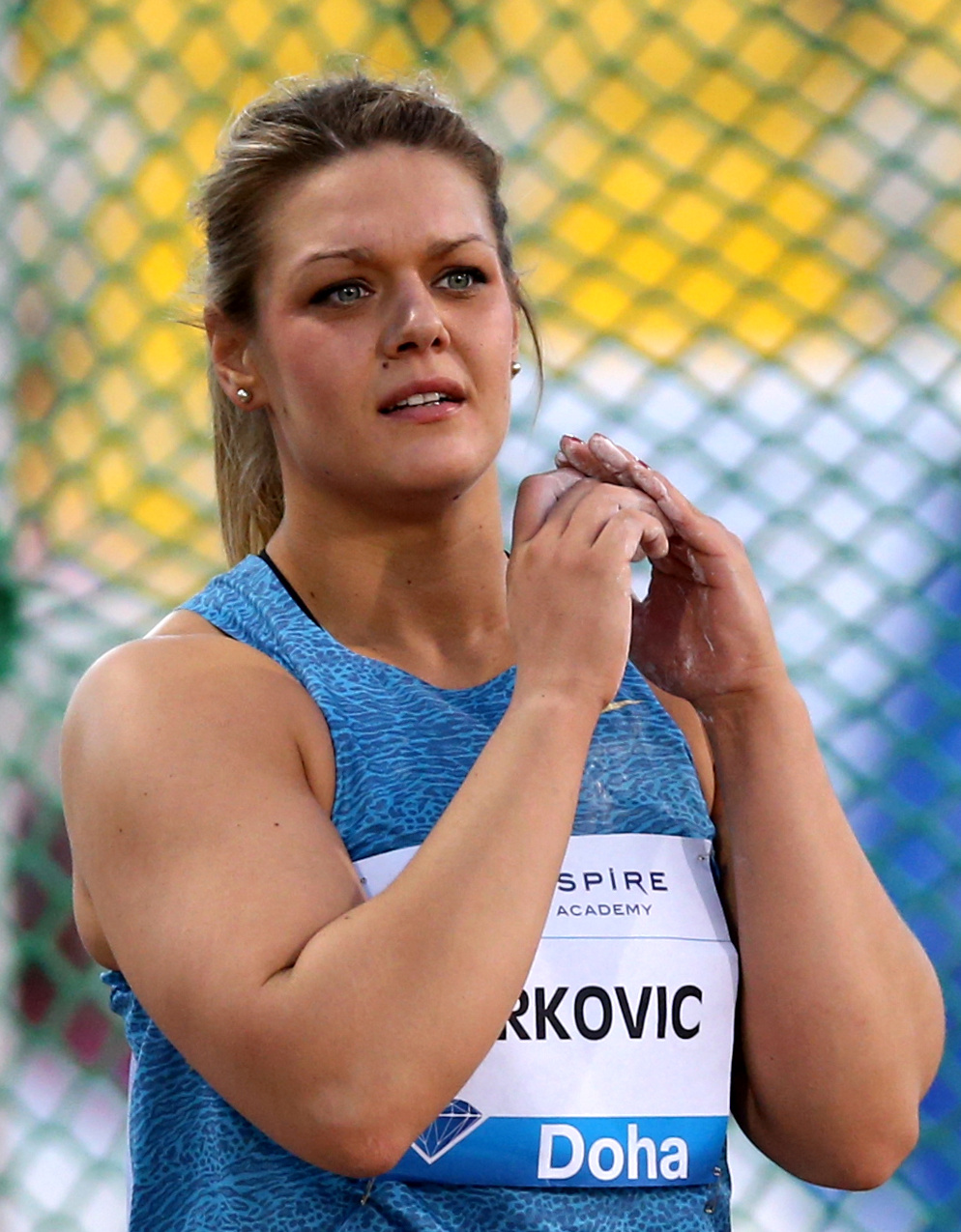 Croatian discus thrower Sandra Perkovic reacts after winning gold at the Doha Diamond League. Pic by Mohan